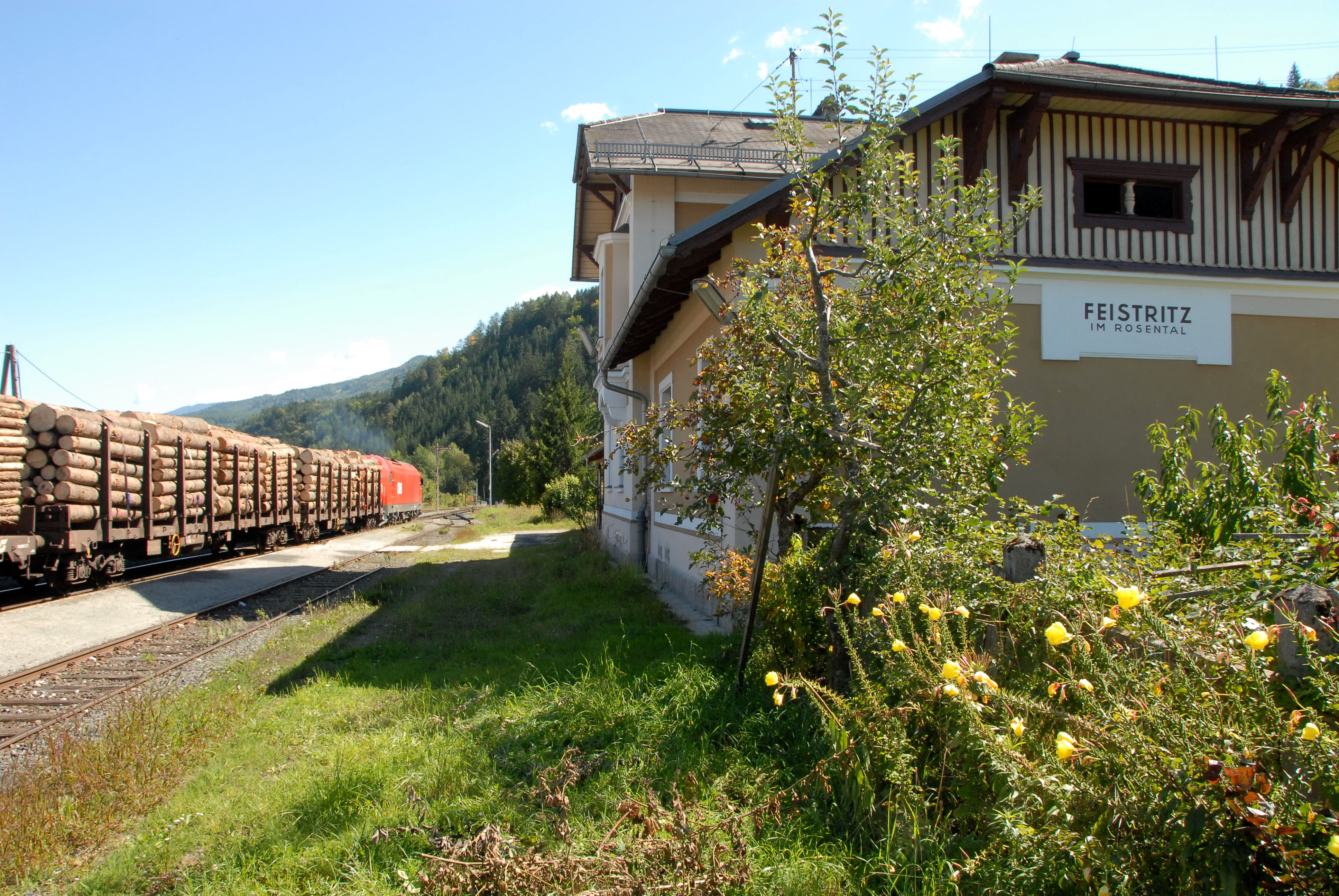 Train station at Feistritz in the Rosental, district Klagenfurt Land, Carinthia, Austria